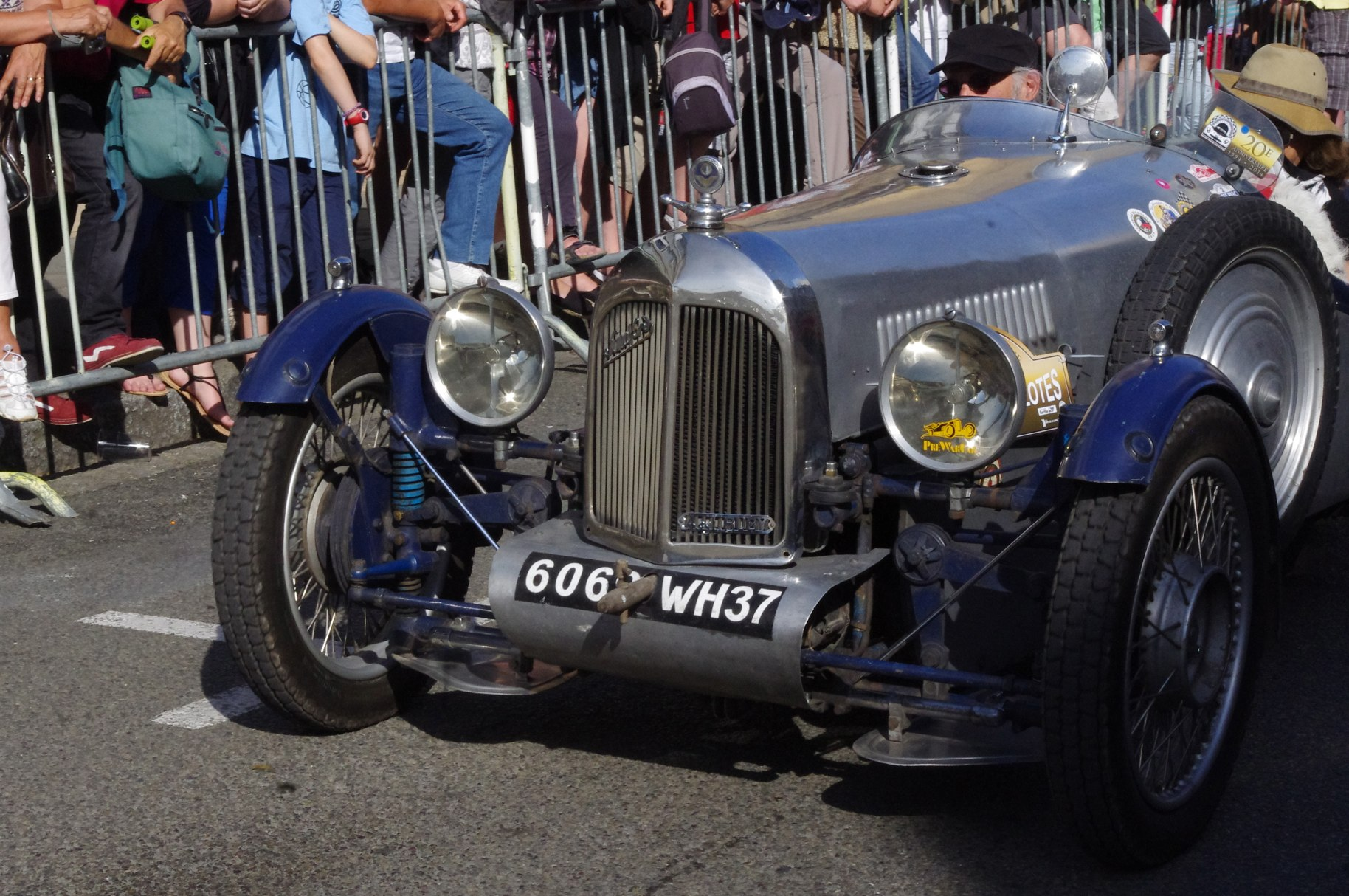 Le Mans 24 Hours 2014 - The Drivers' Parade